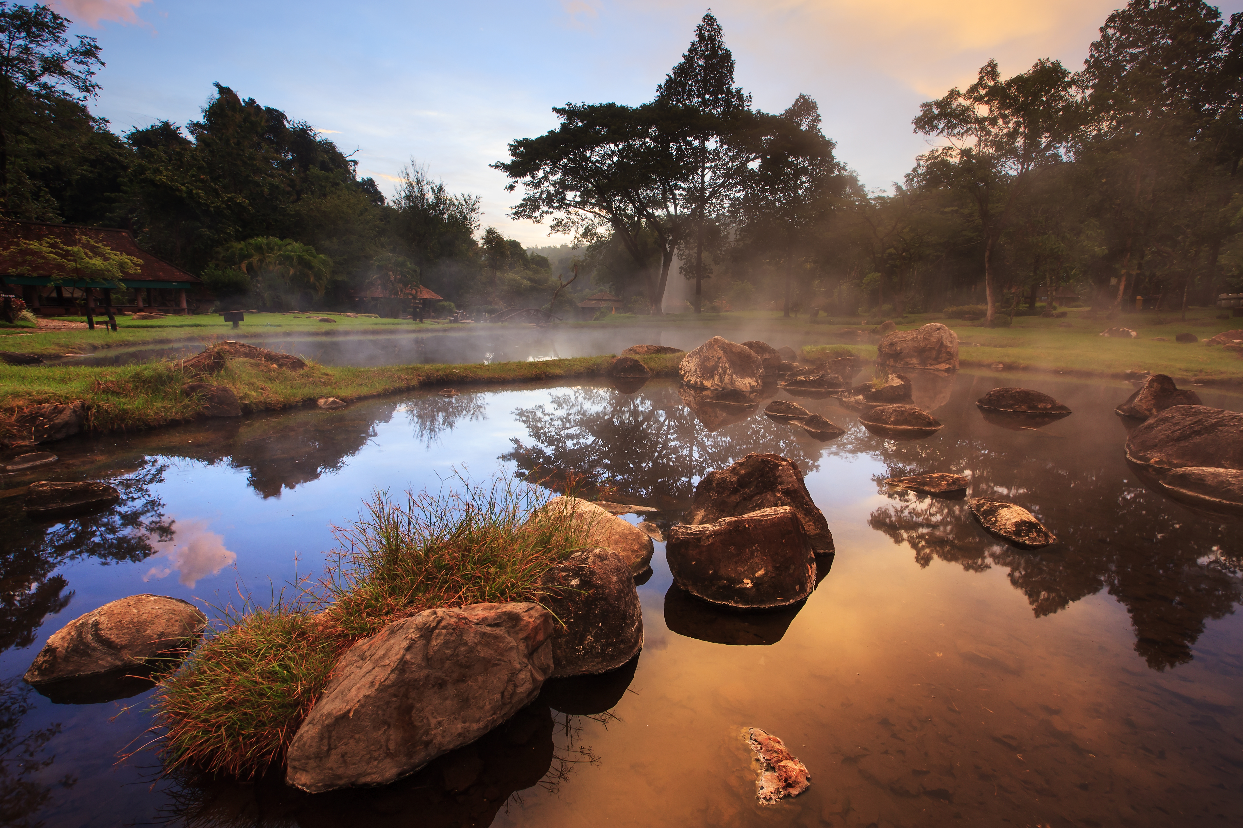 อุทยานแห่งชาติแจ้ซ้อน